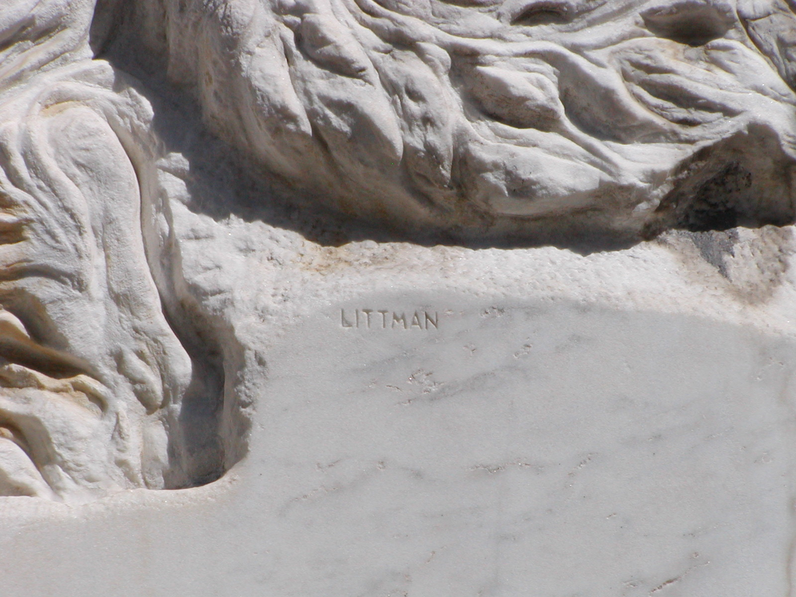 War Memorial, Marion County Courthouse, Salem, Oregon, Frederic Littman, sculptor, and Pietro Belluschi, architect